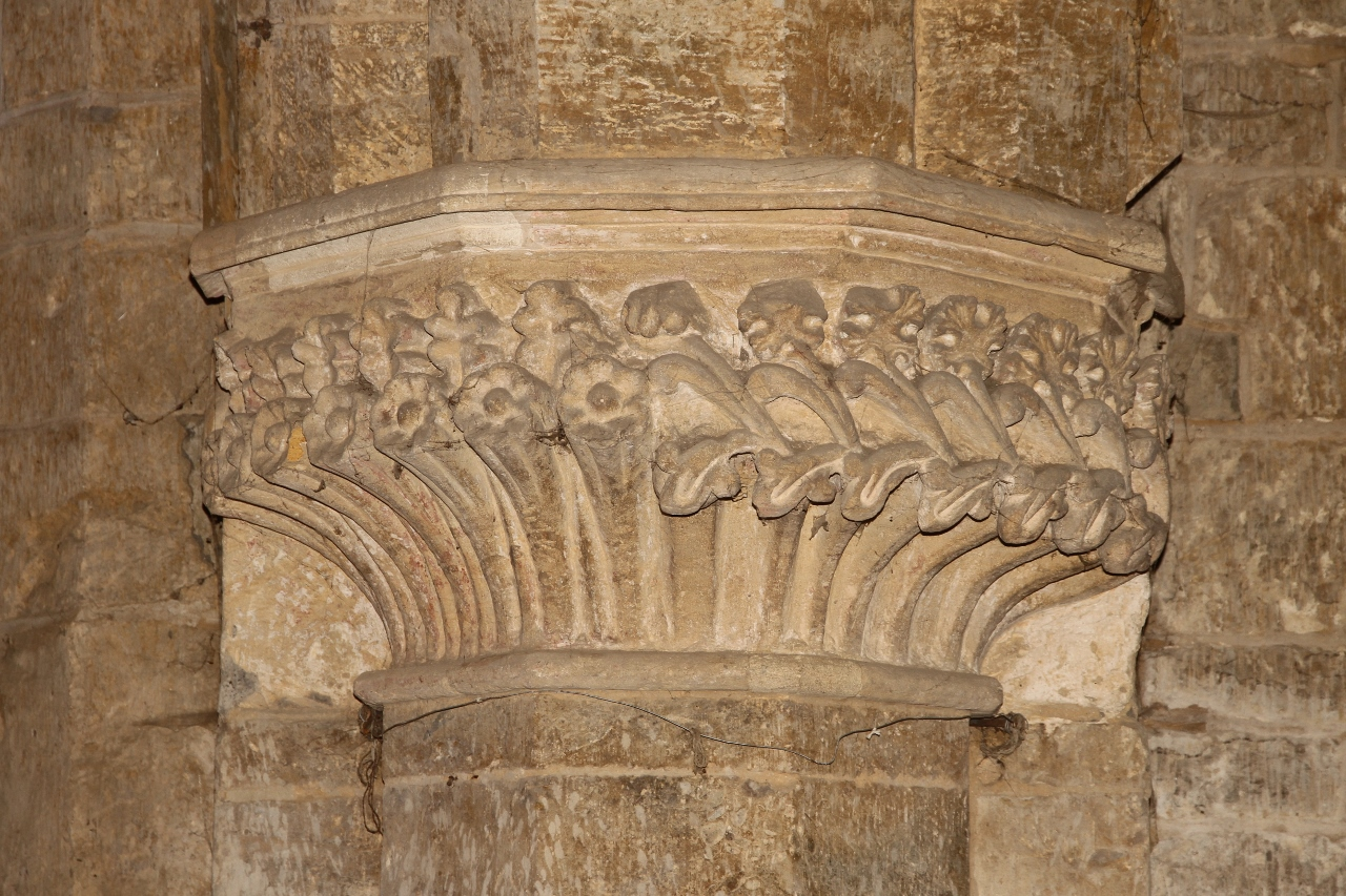 Capital of the engaged column at the west end of the south aisle of Holy Trinity parish church, Shenington, Oxfordshire, seen from the east